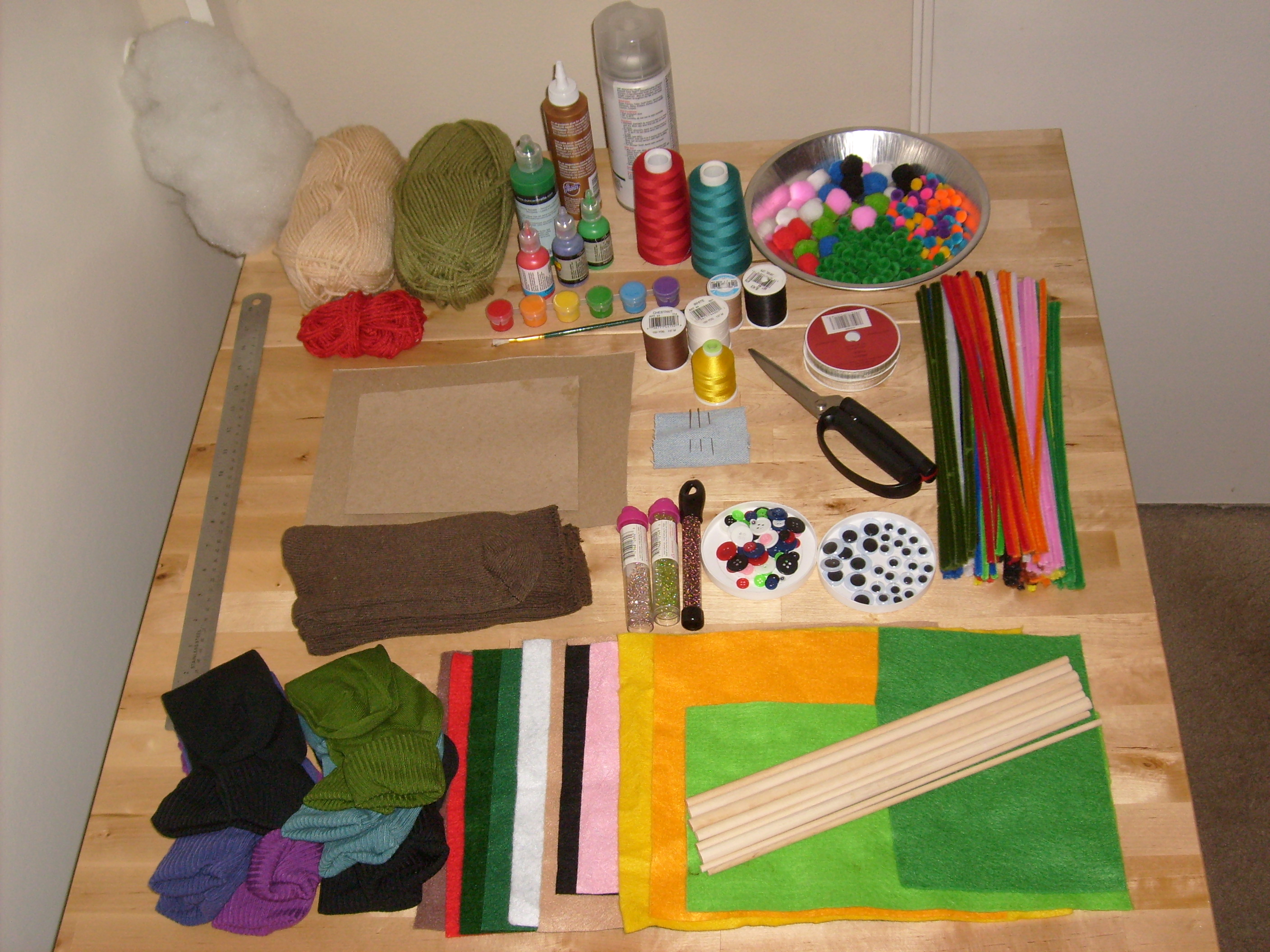 Materials overview for sockpuppet construction. All labels have been turned away from the camera to maintain copyright compliance.